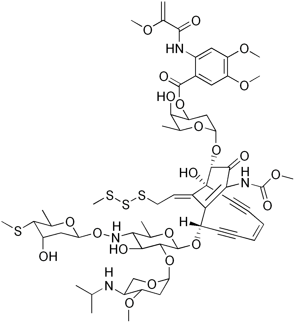 chemical structure of esperamicin A1